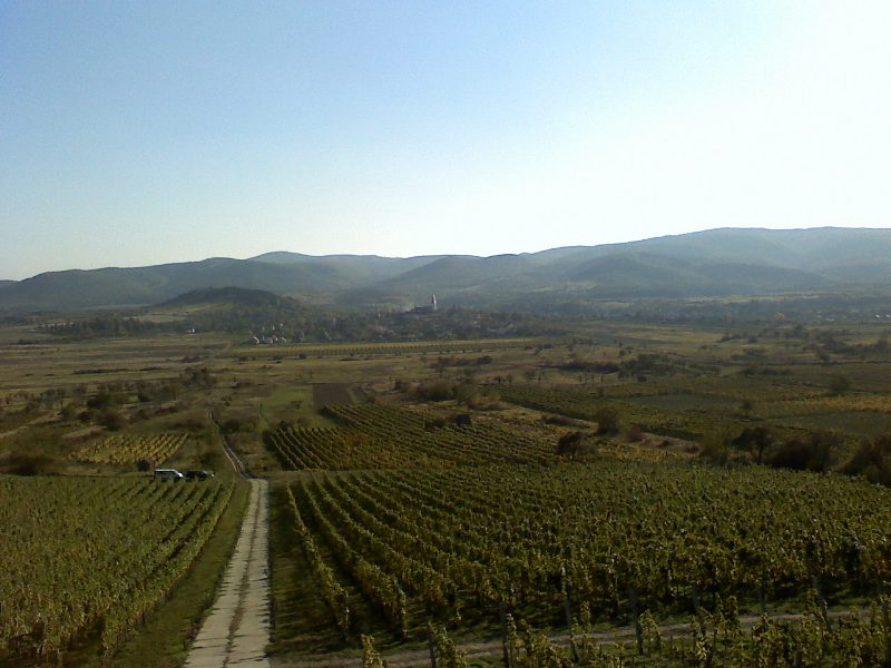 Vineyards in the Hungarian wine region that was produces the dessert wine Tokaji. Béres-szőlőbirtok dűlőiről nézve Fotó: Berkes László